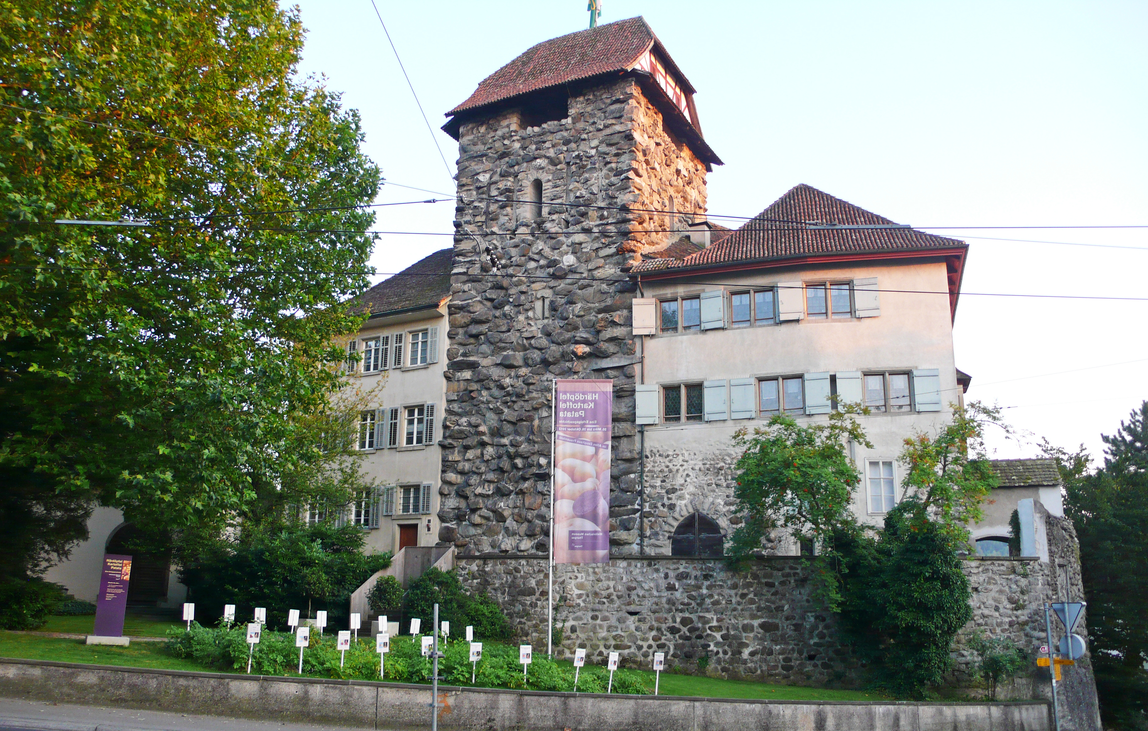 Castle of Frauenfeld, Switzerland.